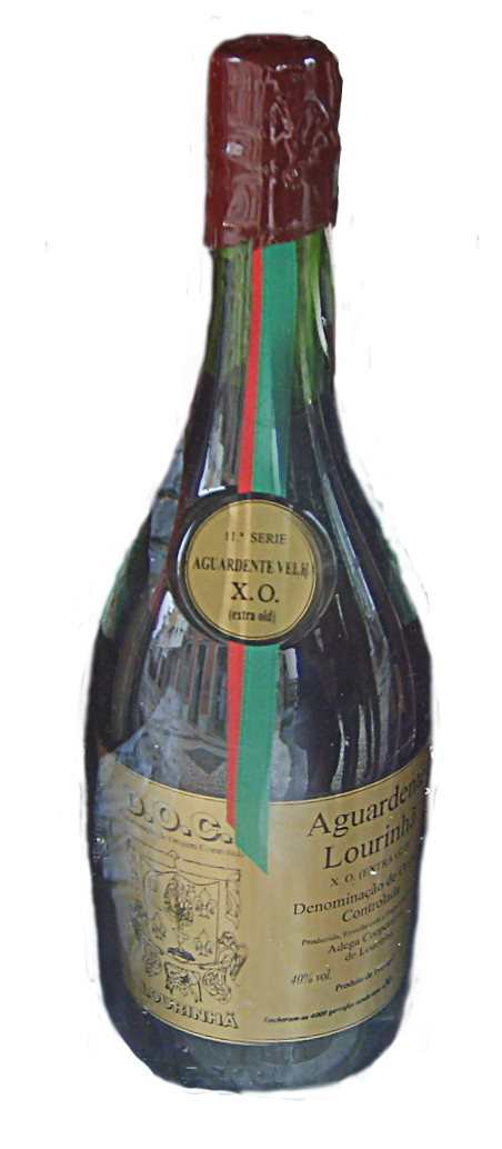 Aguardente of Lourinhã (Portugal)